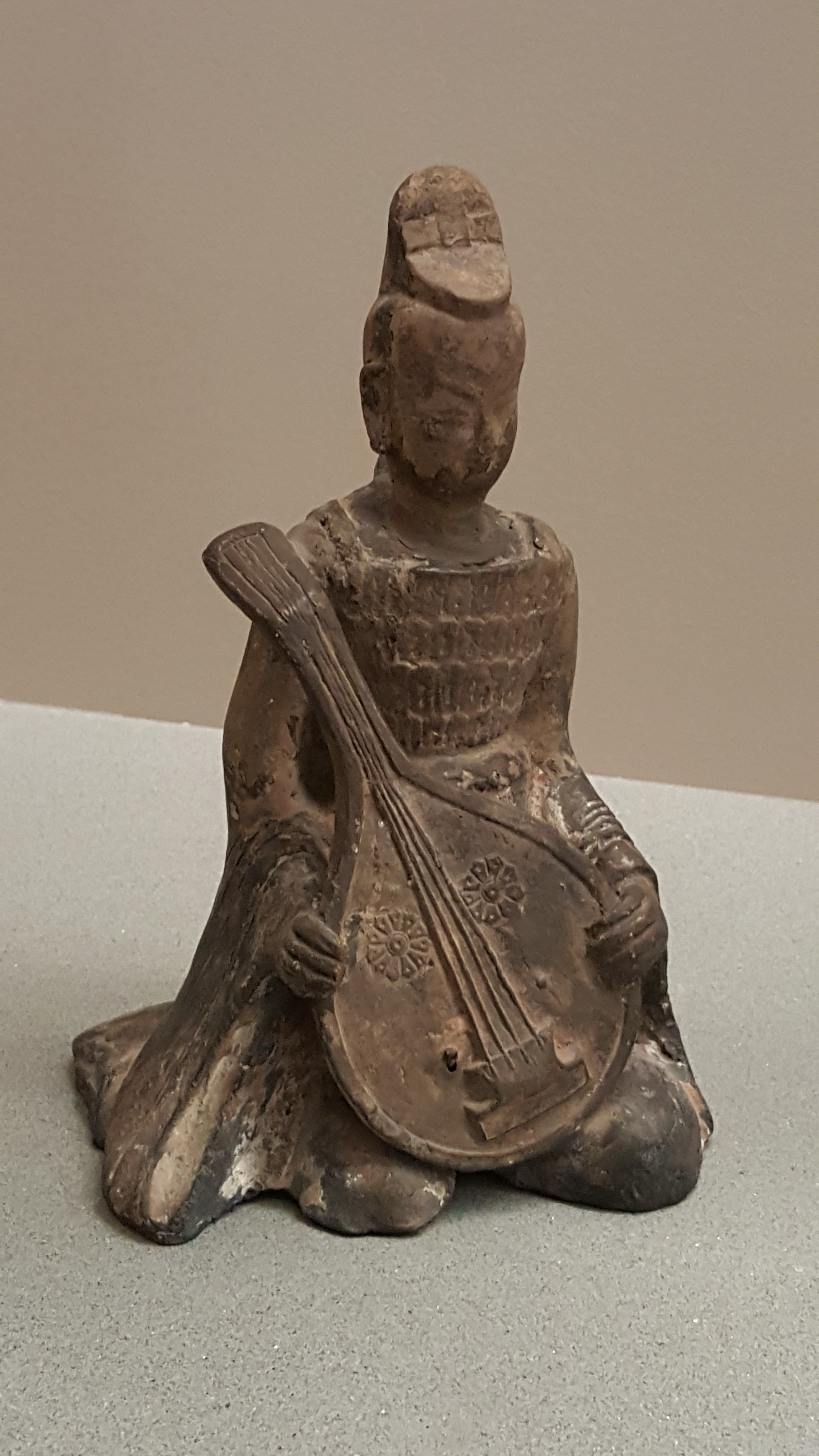 Sui dynasty figure of a pipa player held in the permanent collection of the Musée Cernuschi, Paris, France.